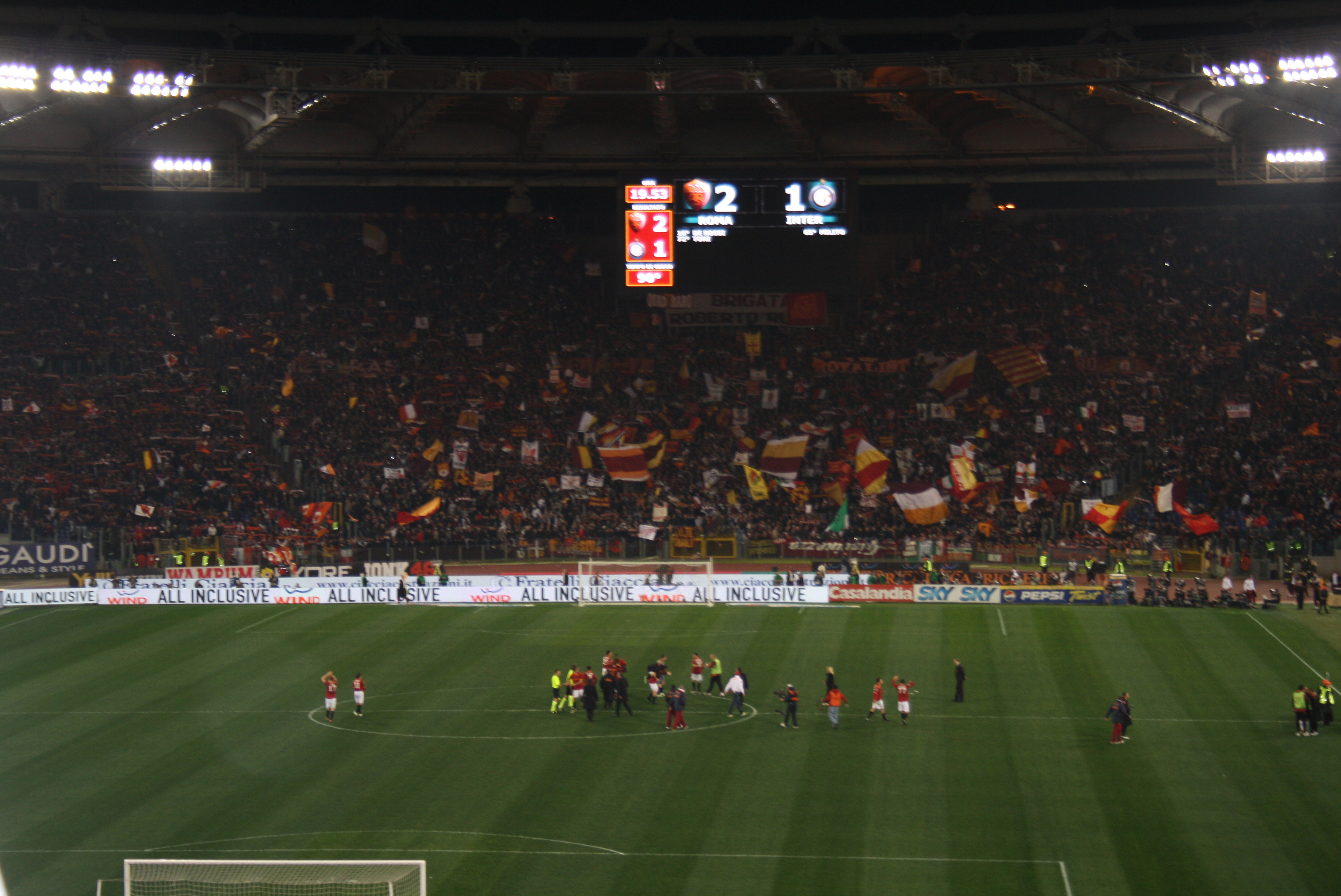 Roma-Inter 2-1